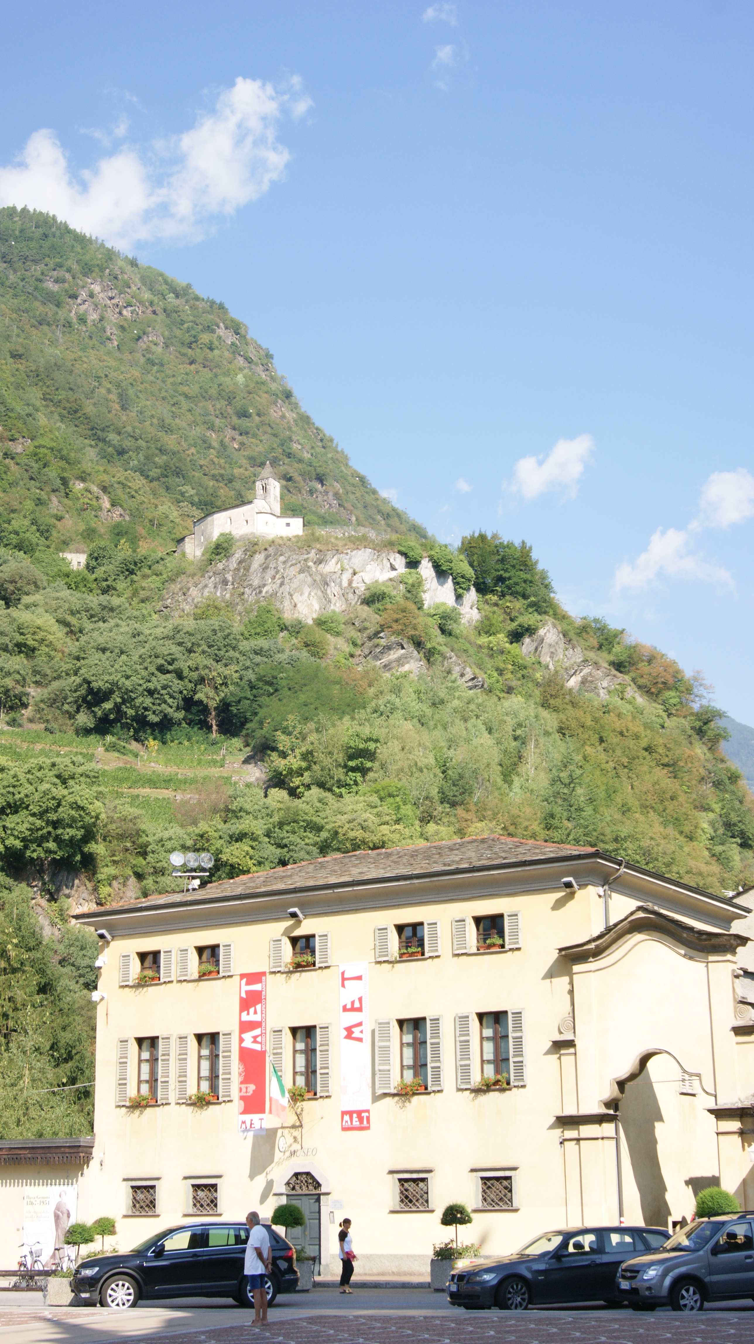 Tirano (Sondrio), Italy.